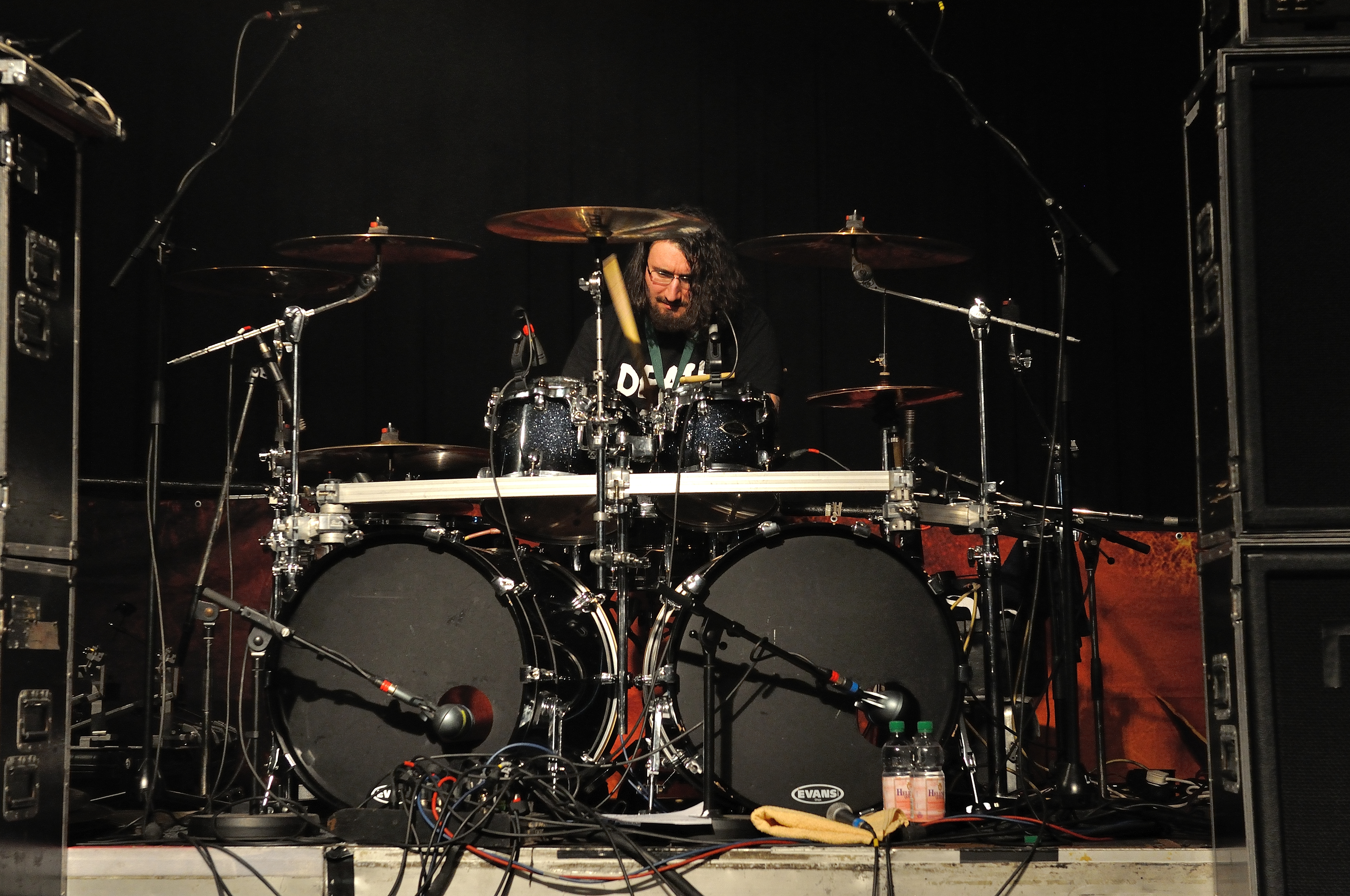 Six Feet Under at Hatefest 2015 in Berlin.